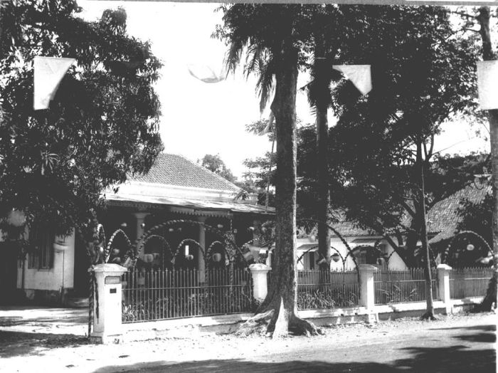 Foto's van de feesten in het Gewest Pekalongan ter herdenking van het zilveren Regeeringsjubileum van Hare Majesteit Wilhelmina, Koningin der Nederlanden